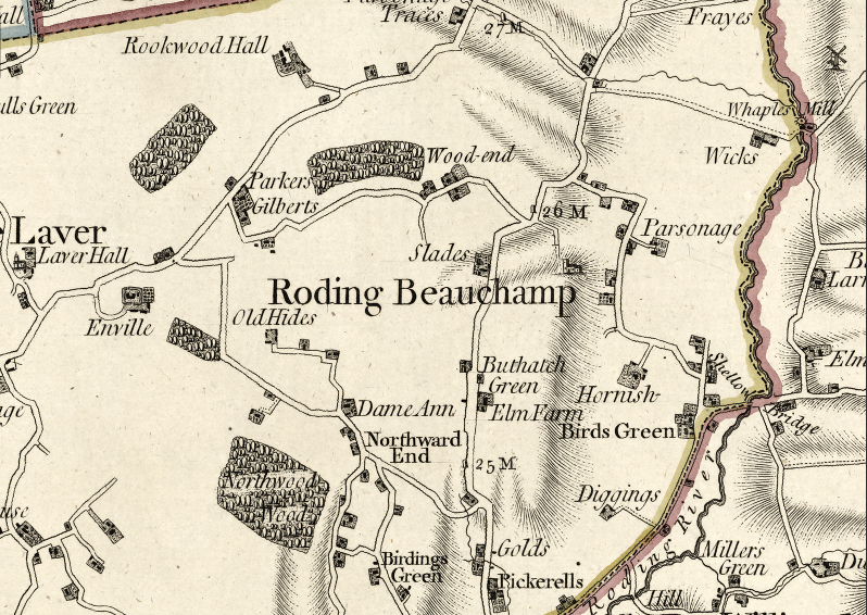 1777 Chapman and André map of Beauchamp Roding in Uttlesford, Essex, England.